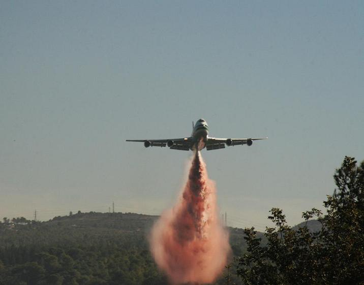 The U.S Supertanker drop gallons during the Mount Carmel forest wild-fires in Israel